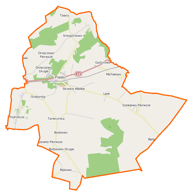 Map of Gmina Piaski, Poland This map of Piaski (gmina w województwie wielkopolskim) was created from OpenStreetMap project data, collected by the community. This map may be incomplete, and may contain errors. Don't rely solely on it for navigation. Border coordinates51.937917.0072←↕→17.220751.8039